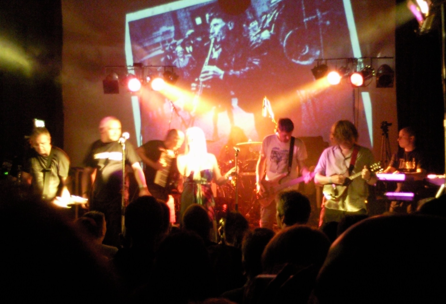 The Tansads on concert, 2010